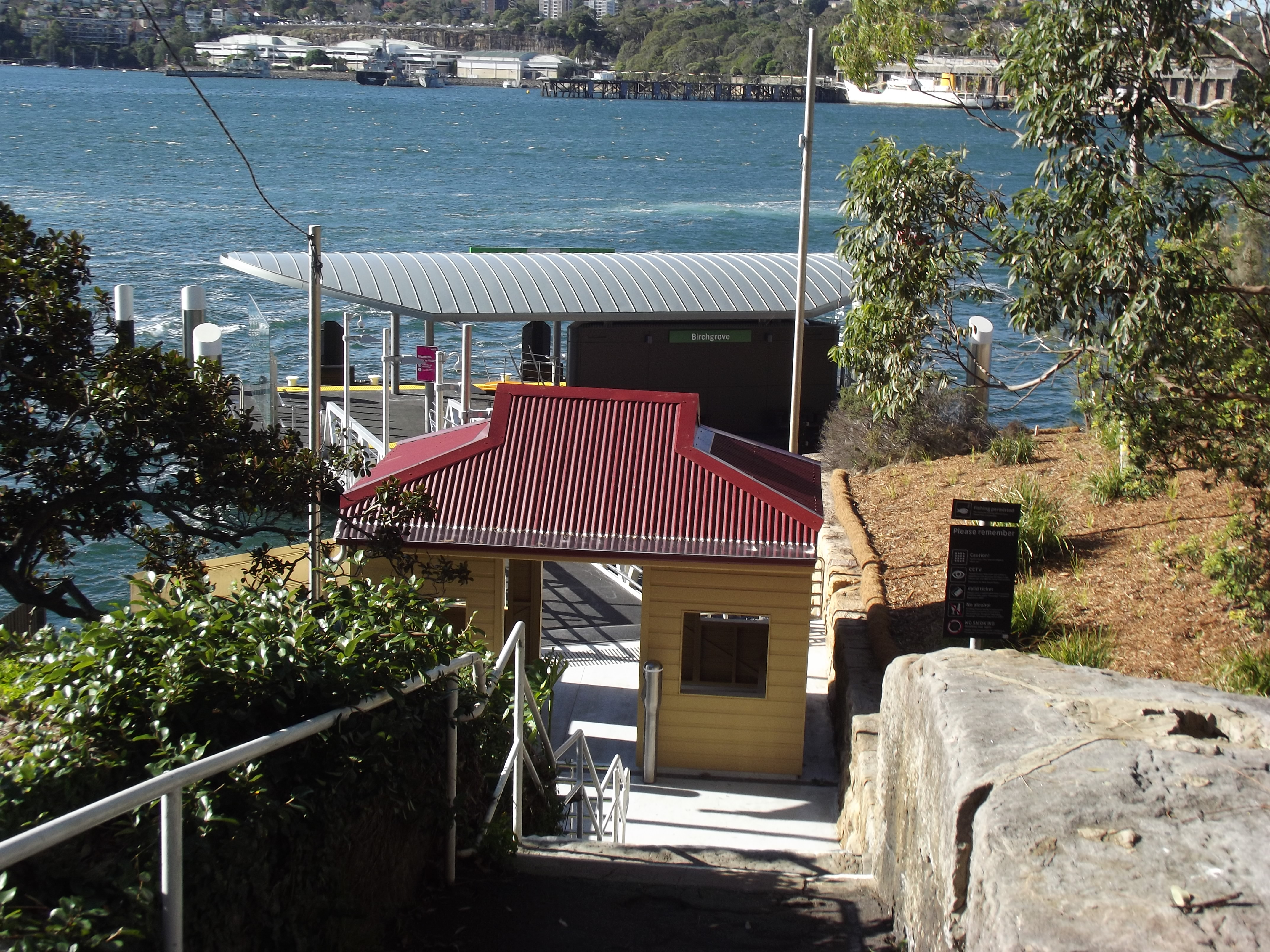 Birchgrove ferry wharf, photographed in June 2018 from the walkway near Yurulbin Park